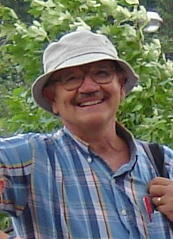 A photo of Ronald Edward Powaski